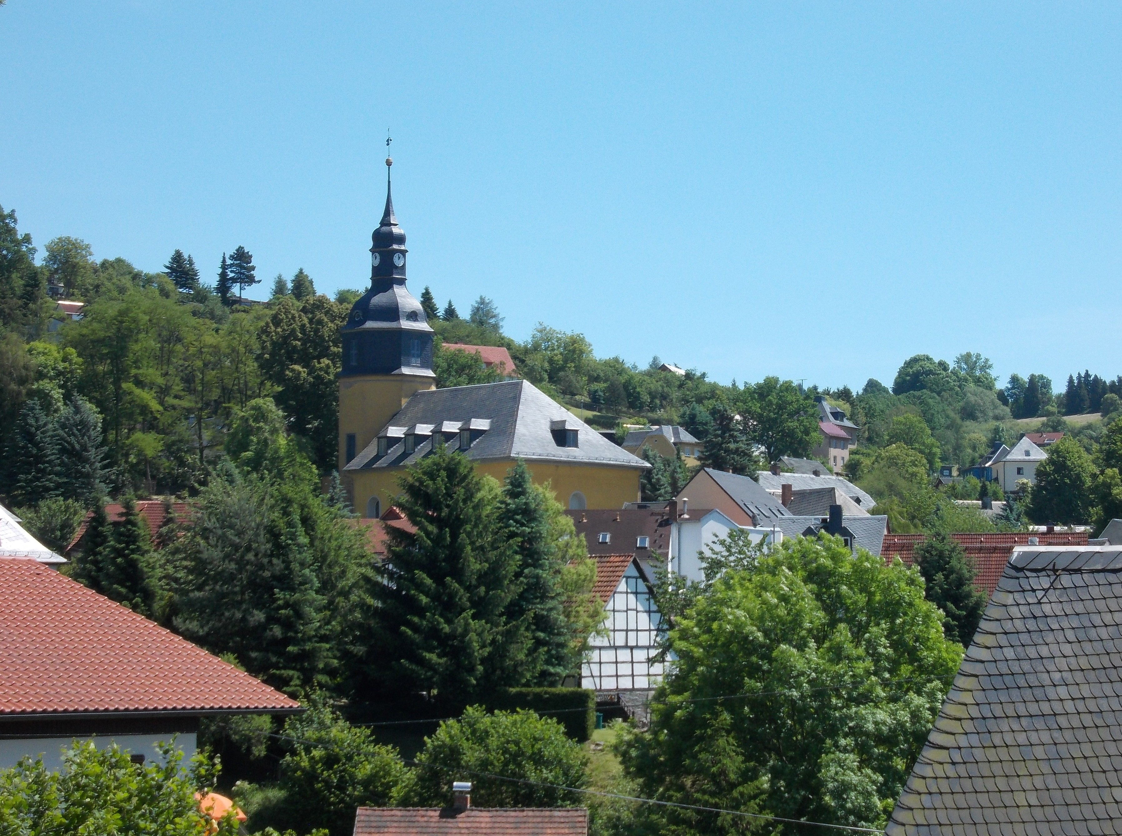 View of St. Erhard's Church in Berga (Greiz district, Thuringia)